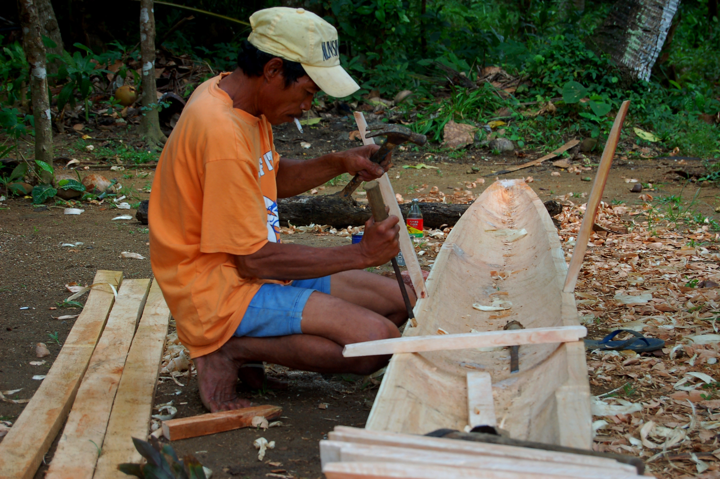 Traditional boat building at Panay in the Philippines. Fishermen can build their own boats or buy new. An unmotorized wooden fishing boat sells for $100 USD new.